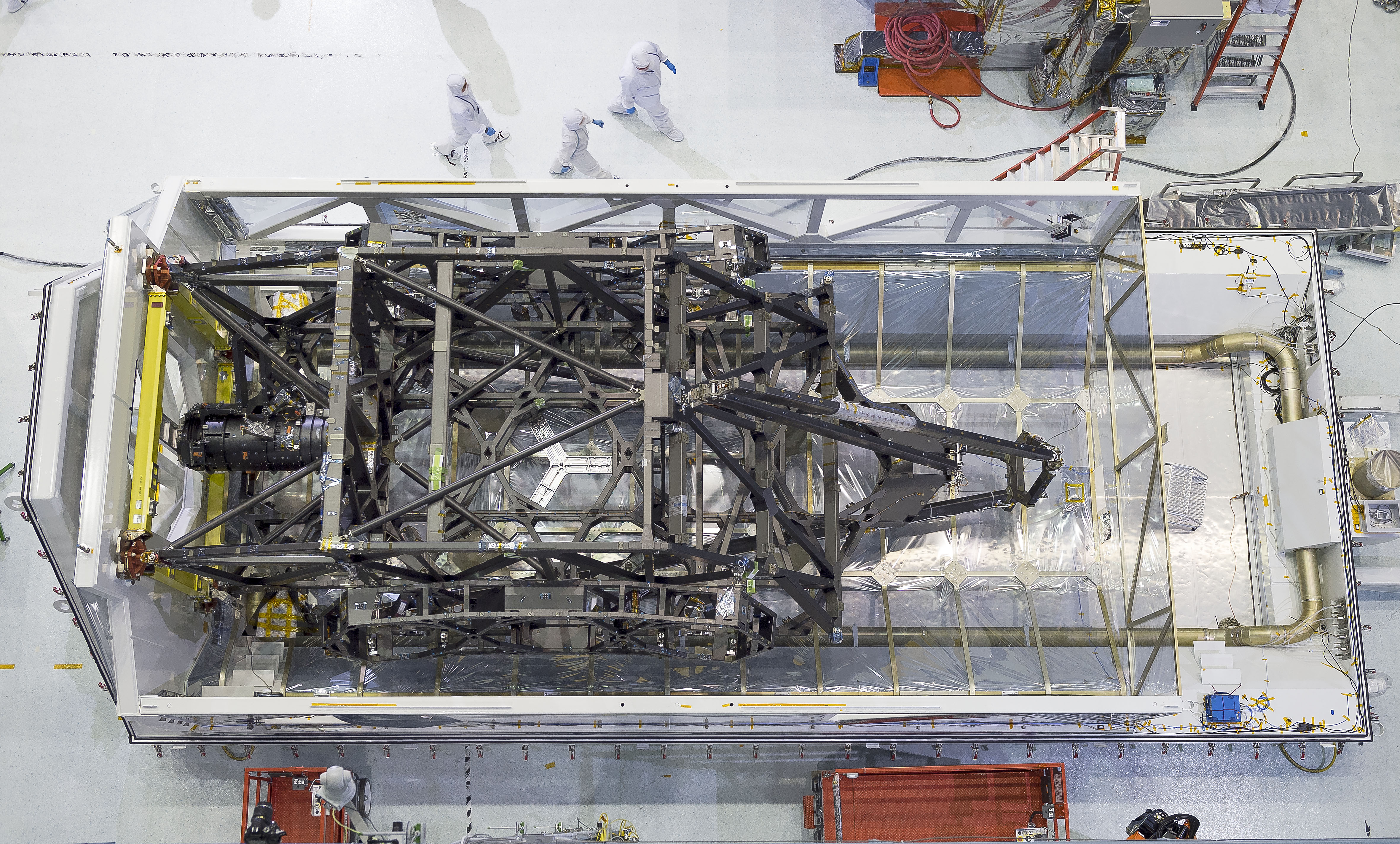 The James Webb Space Telescope's "spine" or backplane arrived on Aug. 25 at NASA's Goddard Space Flight Center in Greenbelt, Maryland from Northrop Grumman. Credits: NASA Goddard/Chris Gunn Read more: NASA image use policy. NASA Goddard Space Flight Center enables NASA’s mission through four scientific endeavors: Earth Science, Heliophysics, Solar System Exploration, and Astrophysics. Goddard plays a leading role in NASA’s accomplishments by contributing compelling scientific knowledge to advance the Agency’s mission. Follow us on Twitter Like us on Facebook Find us on Instagram